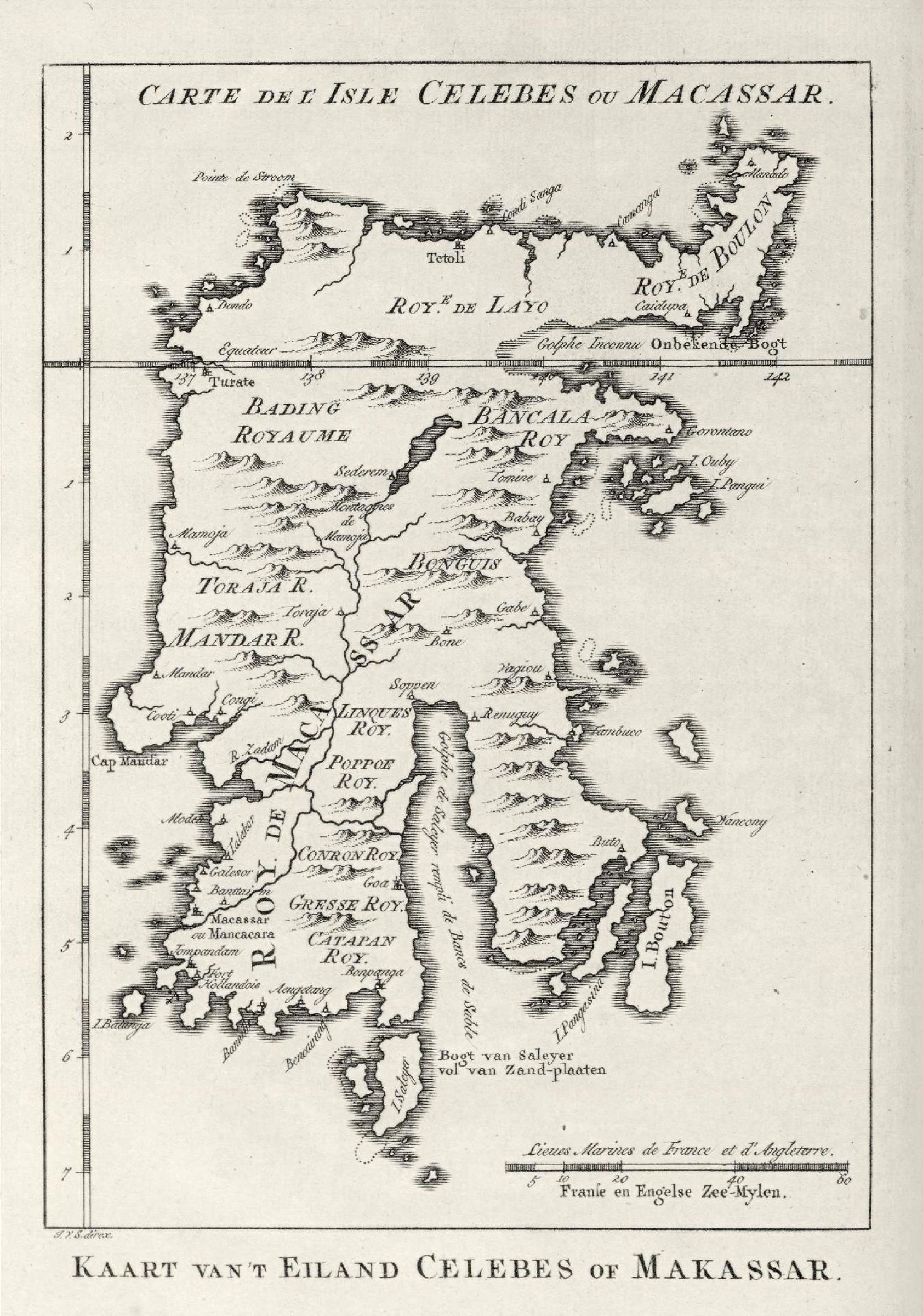 Map of Celebes. Carte de l' Isle Celebes ou Macassar. Kaart van 't Eiland Celebes of Makassar.